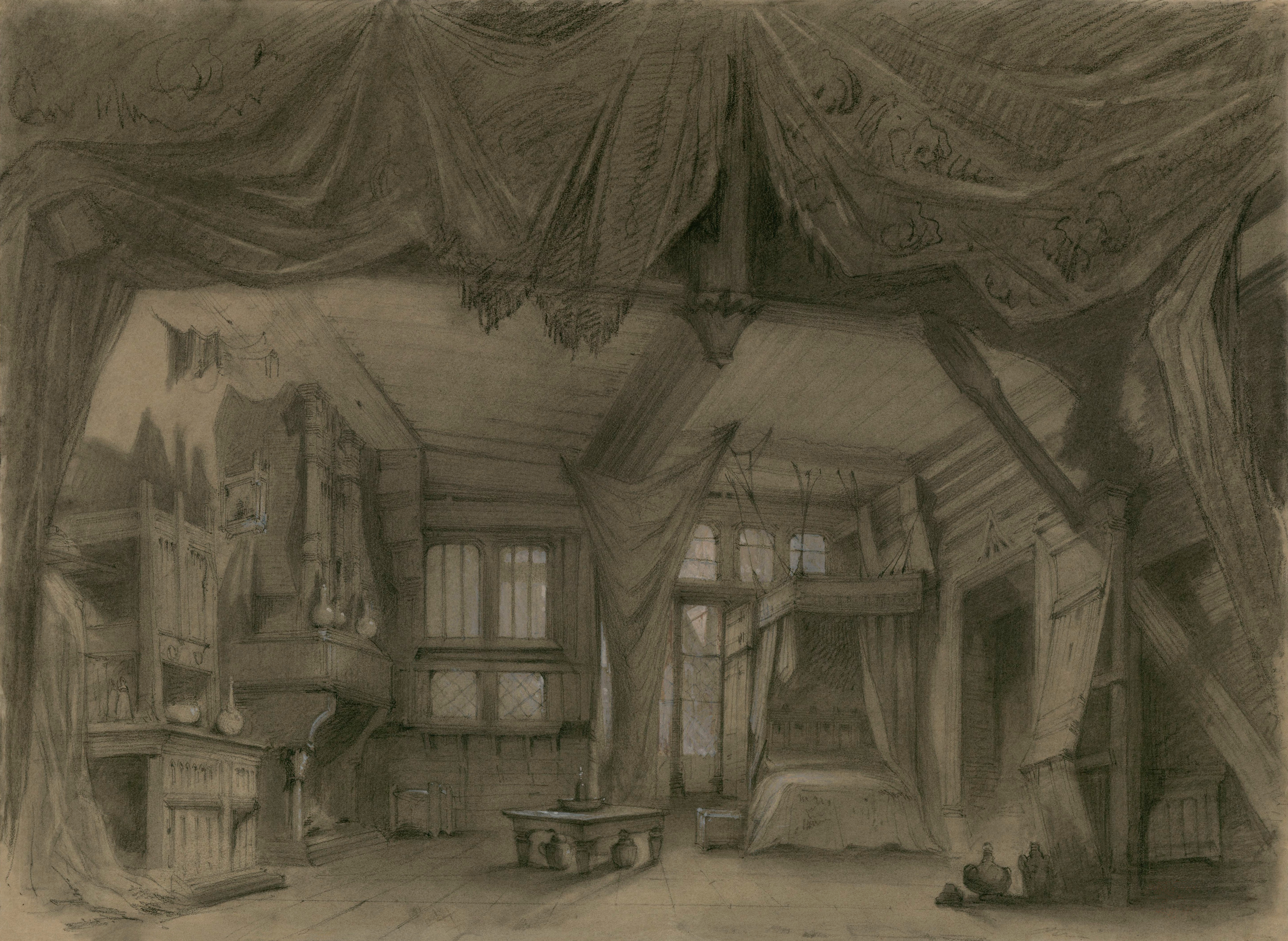 Sketch for the set of Act III, Scene 2 of La Esmeralda, an opera by Louise Bertin